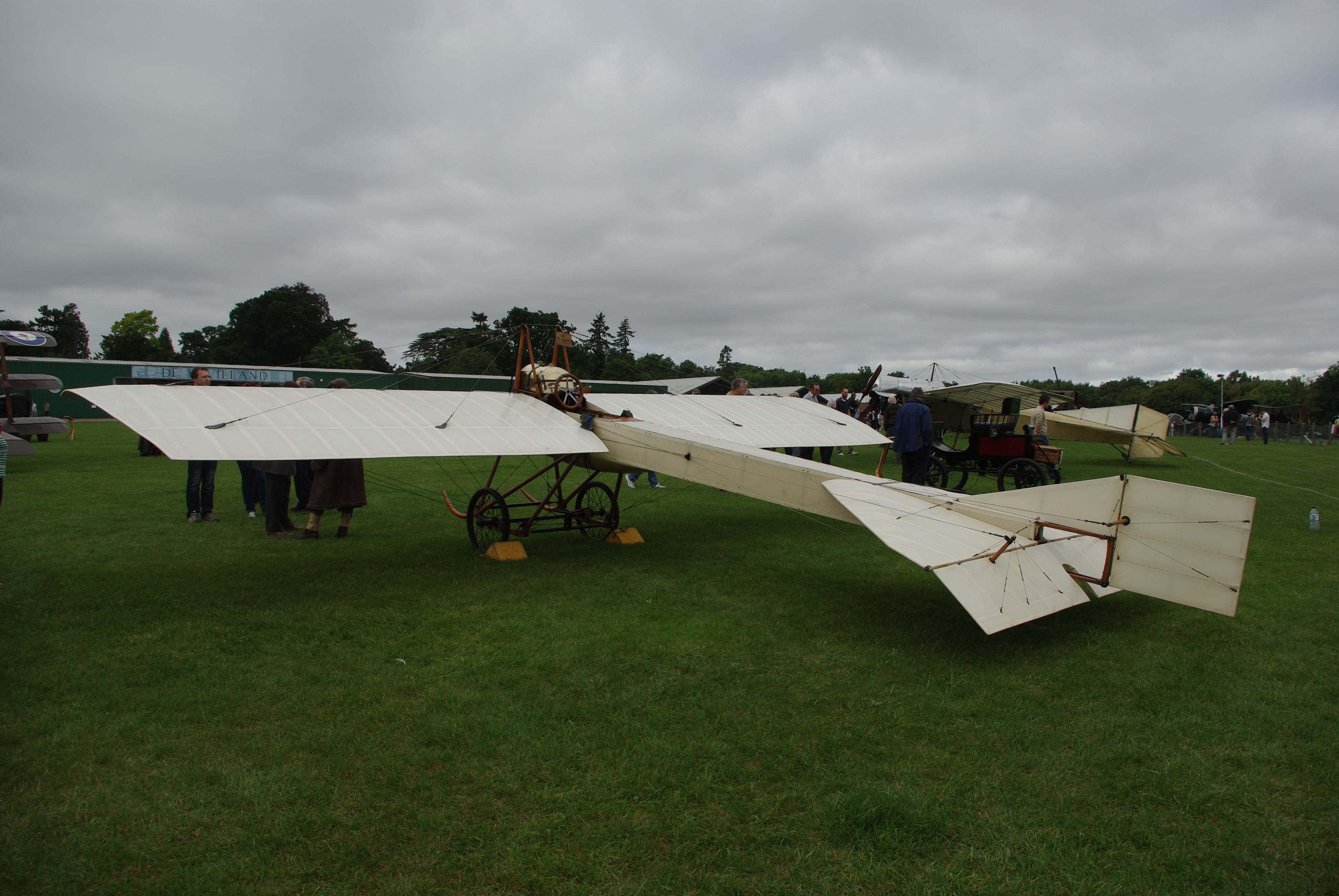 Deperdussin 1910 G-AANH at the Shuttleworth Uncovered event 22 September 2013